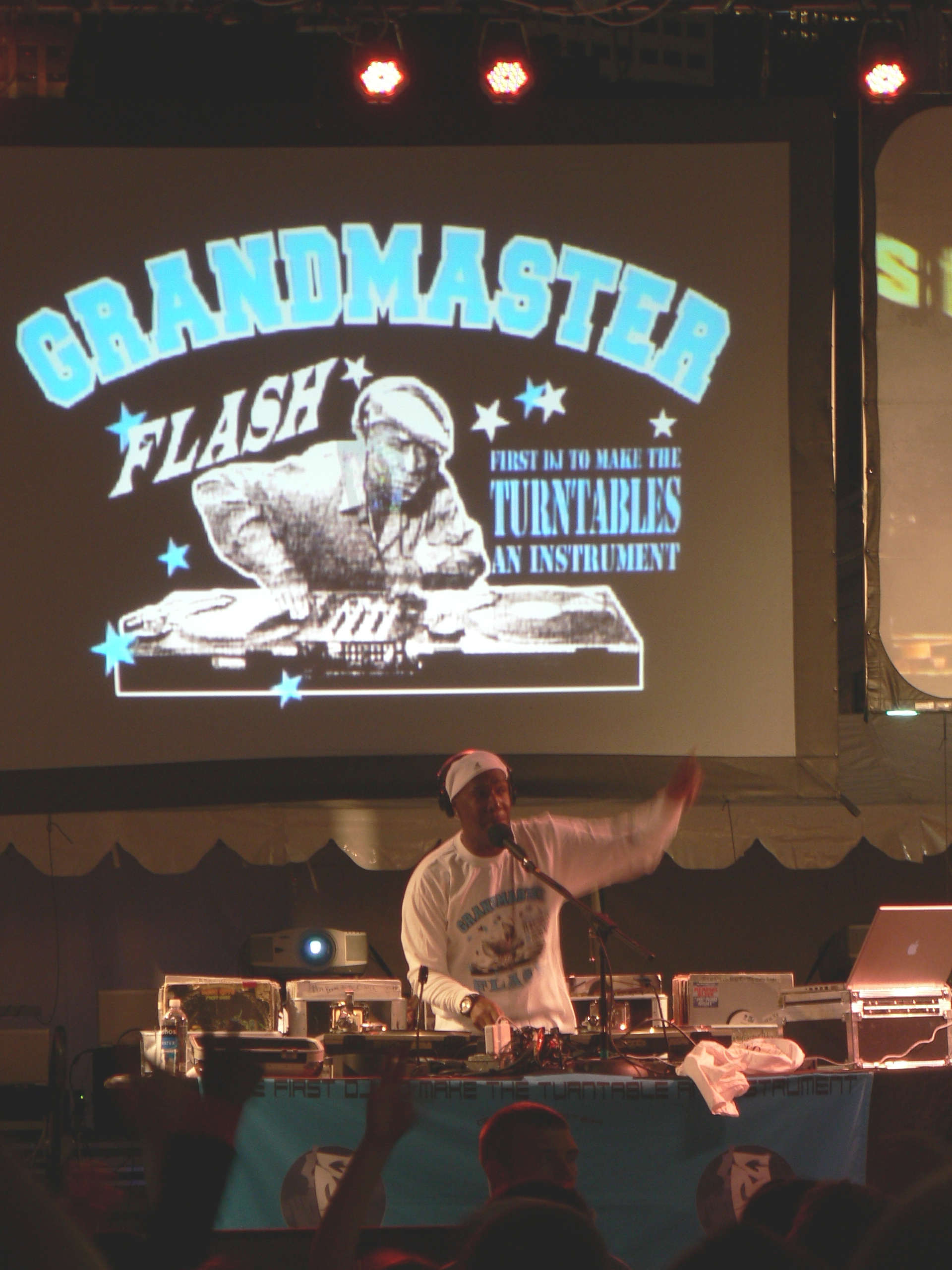 Grandmaster Flash at the Ingenuity Festival